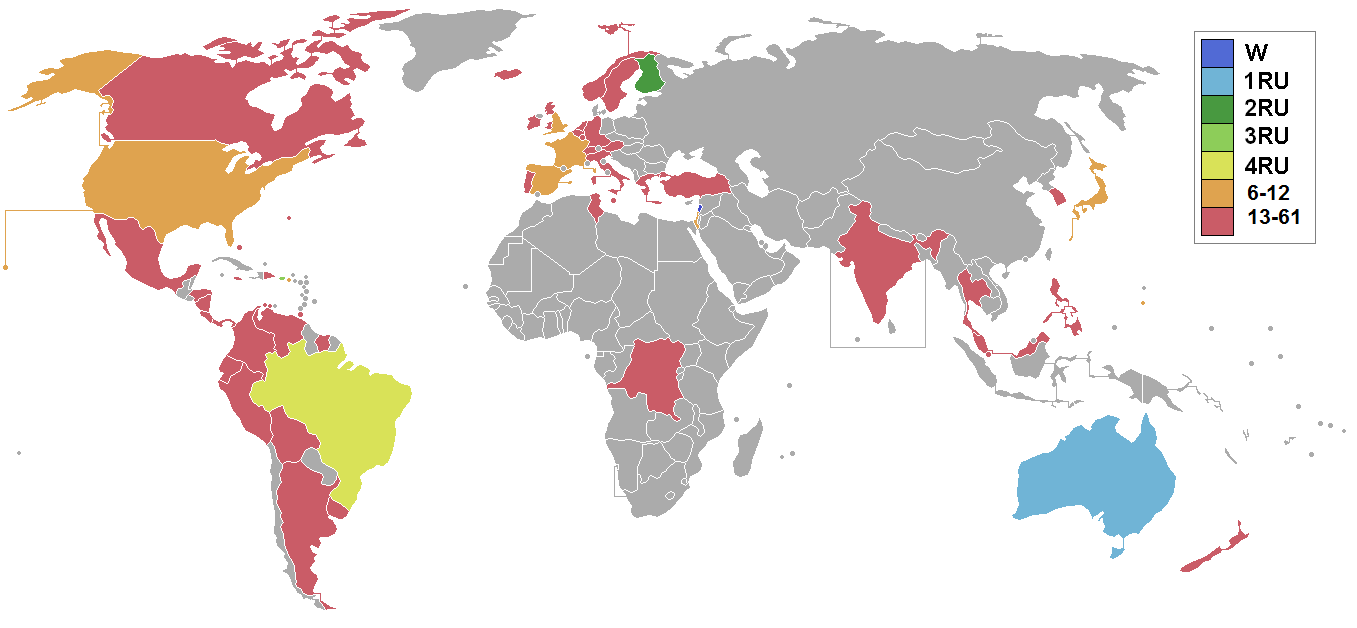 Miss Universe 1971 competing nations and territories